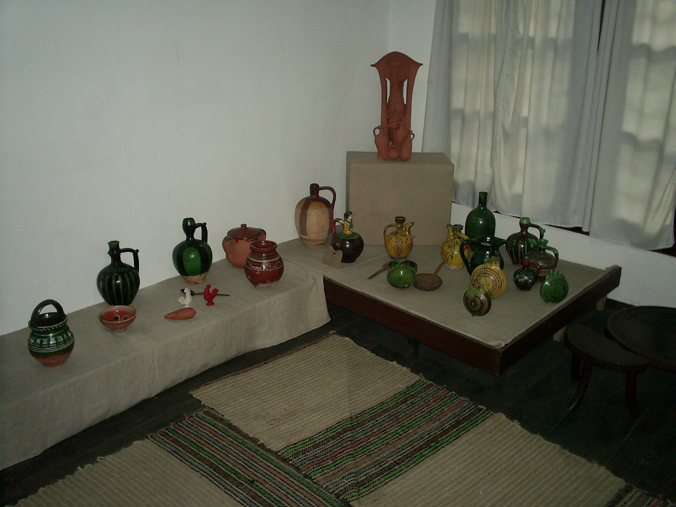 Berkovitza, Bulgaria: exhibition in the historical museum